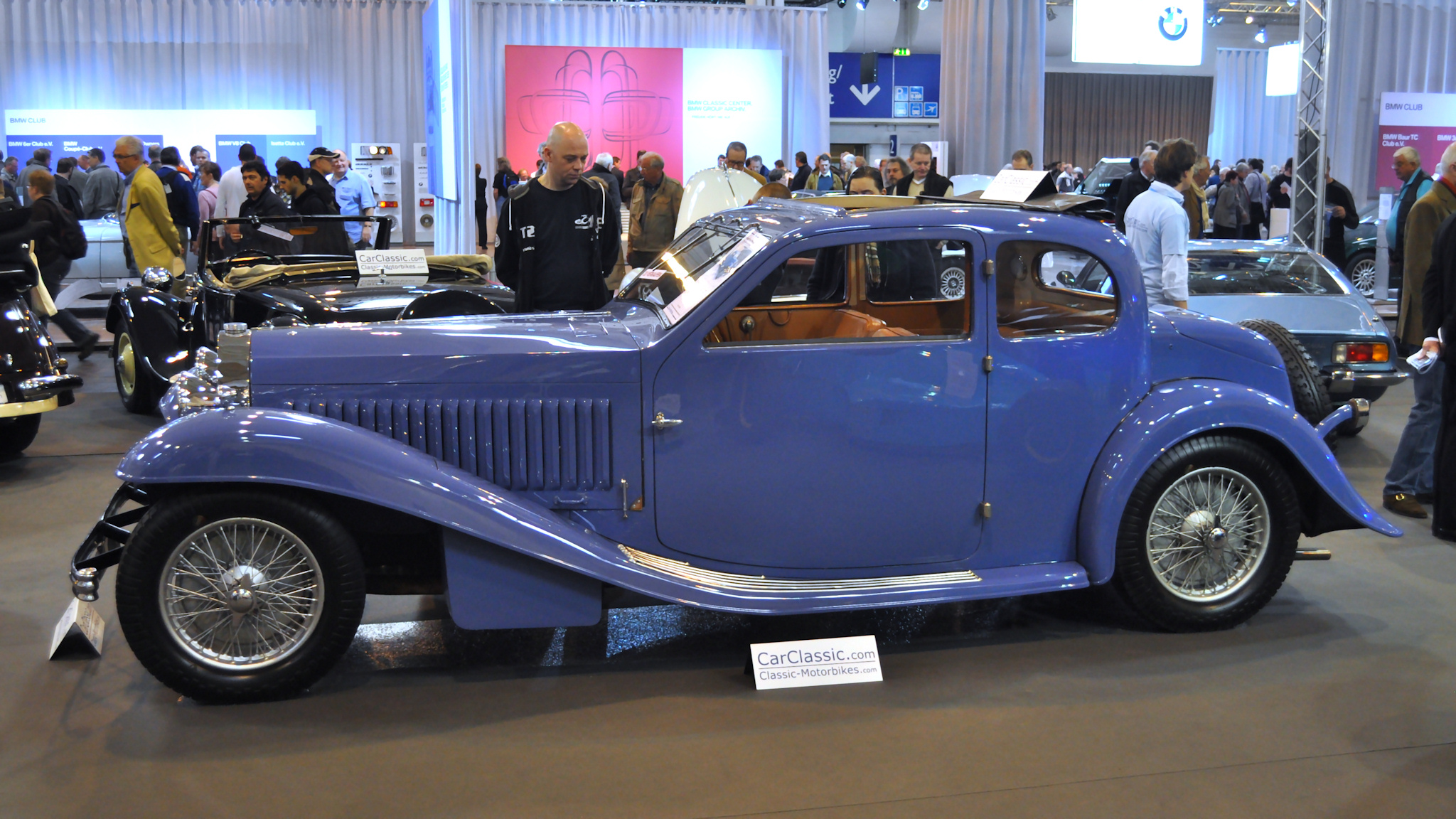 Bugatti Type 57 Ventoux (series 1, 1934-1935) at the Technoclassica 2011 in Essen